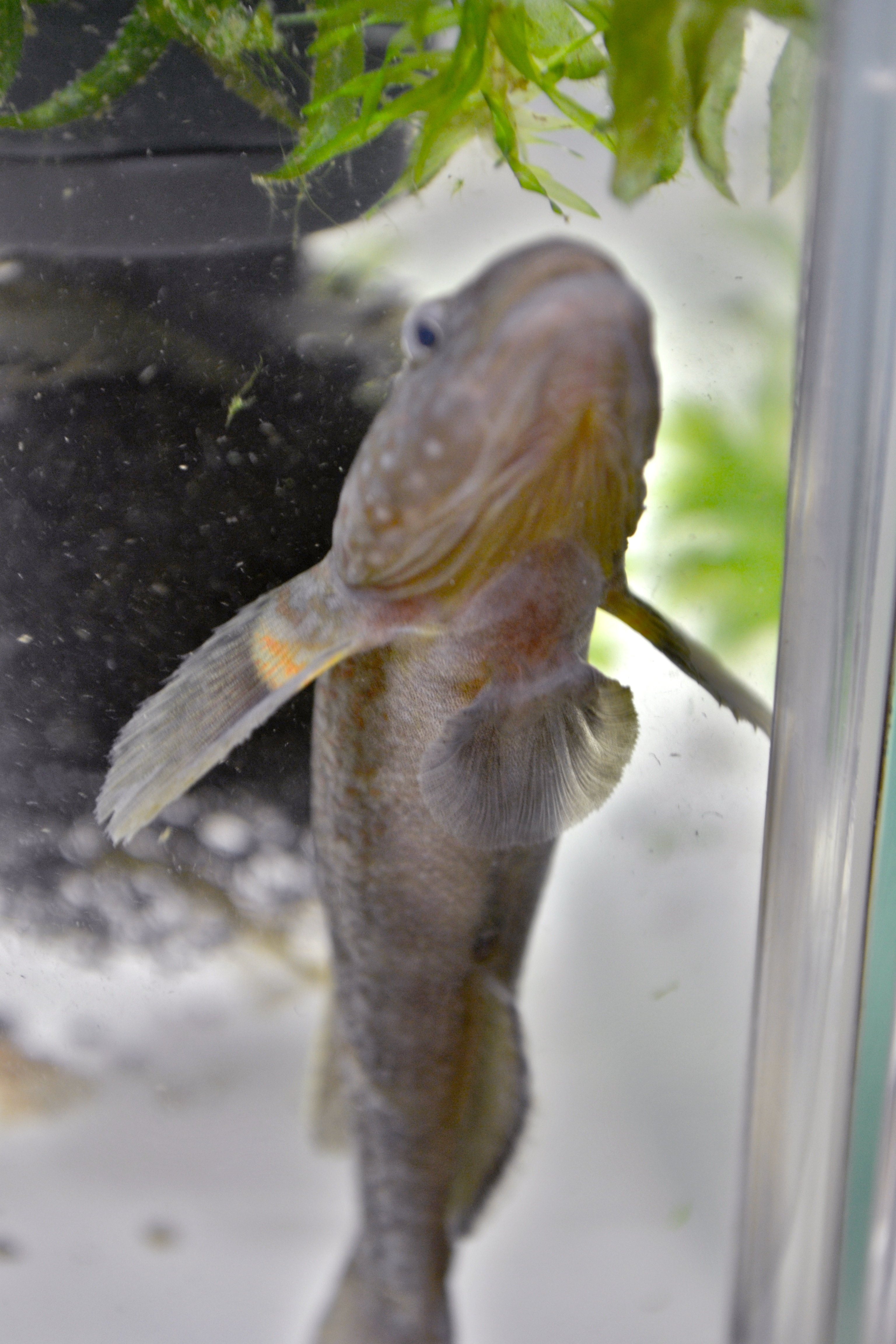 Tridentiger brevispinis caught in Yamato River（Yamato-gawa）, Osaka, Japan. Ventral fin is turned sucker.